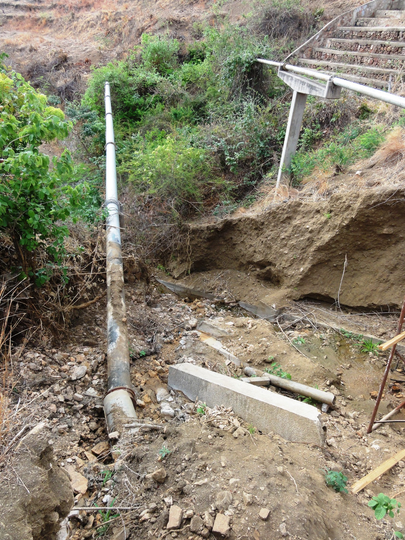 During the dry season elephants are coming into the city to find water. A small leakage of a water pipe has attract the elephants to dig for water. They have destroyed the pipe to drink the water. The broken pipe and the high pressure has lead to erosion and a destruction of other pipes such as for drinking water and for sewerage. Photo taken at 3 November 2011 by P. Feiereisen in Kariba, Zimbabwe.